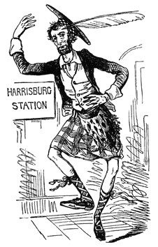 "The MacLincoln Harrisburg Highland Fling". Cartoon commenting on the Baltimore Plot.